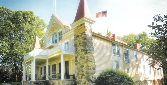 Clara Barton National Historic Site, Glen Echo, Maryland